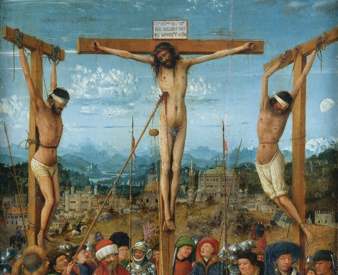 Part of the Crucifixion and Last Judgement diptych